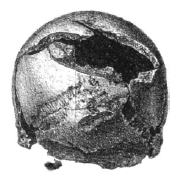 An image of one of the mangled skulls found at Worlebury Camp Please note that it has been published over 120 years ago, in 1883.